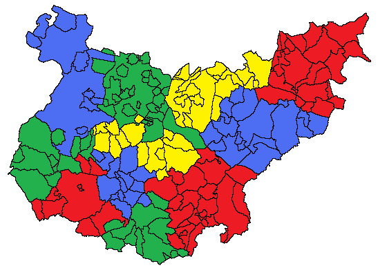 Comarcas de la provincia de Badajoz